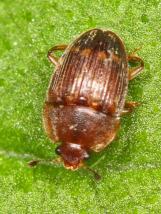 Strawberry Sap Beetle - Stelidota geminata, Merrimac Farm Wildlife Management Area, Aden, Virginia.